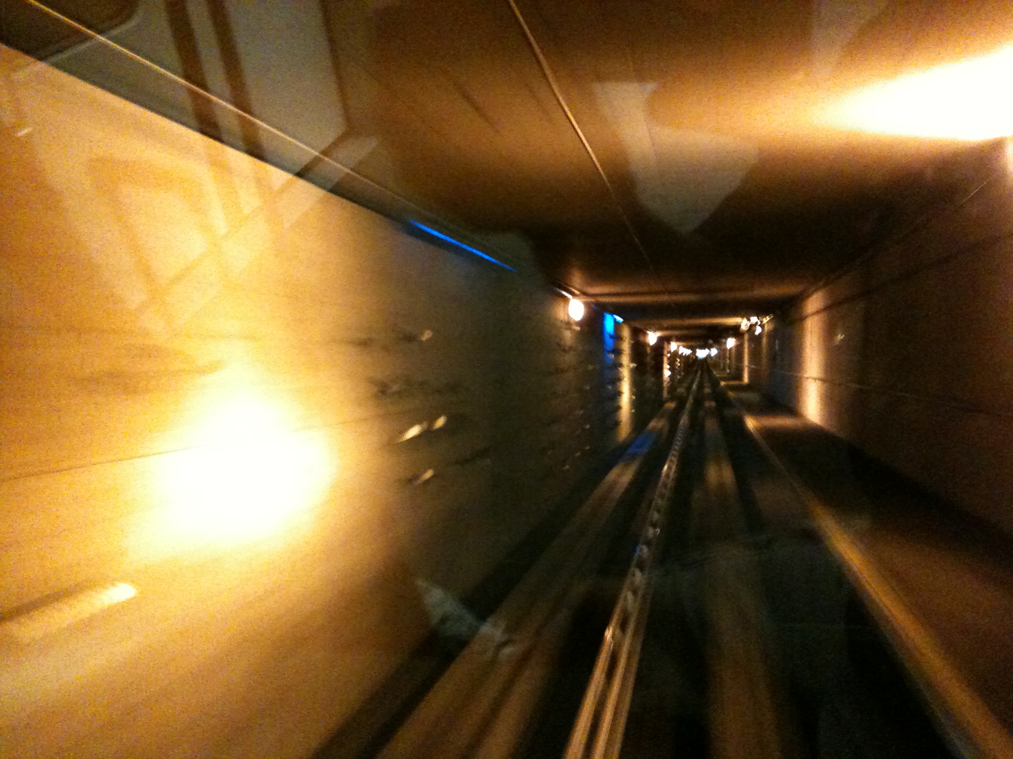 Kinetic Light Air Curtain at Denver Airport